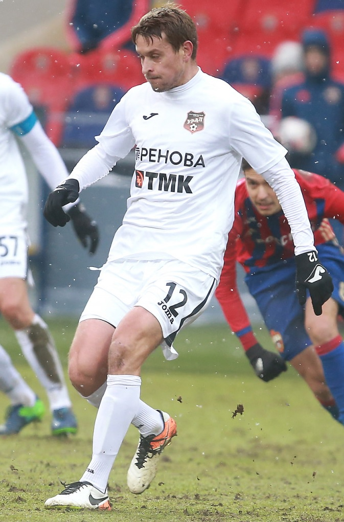 Aleksandr Novikov with FC Ural Yekaterinburg in a game against PFC CSKA Moscow.